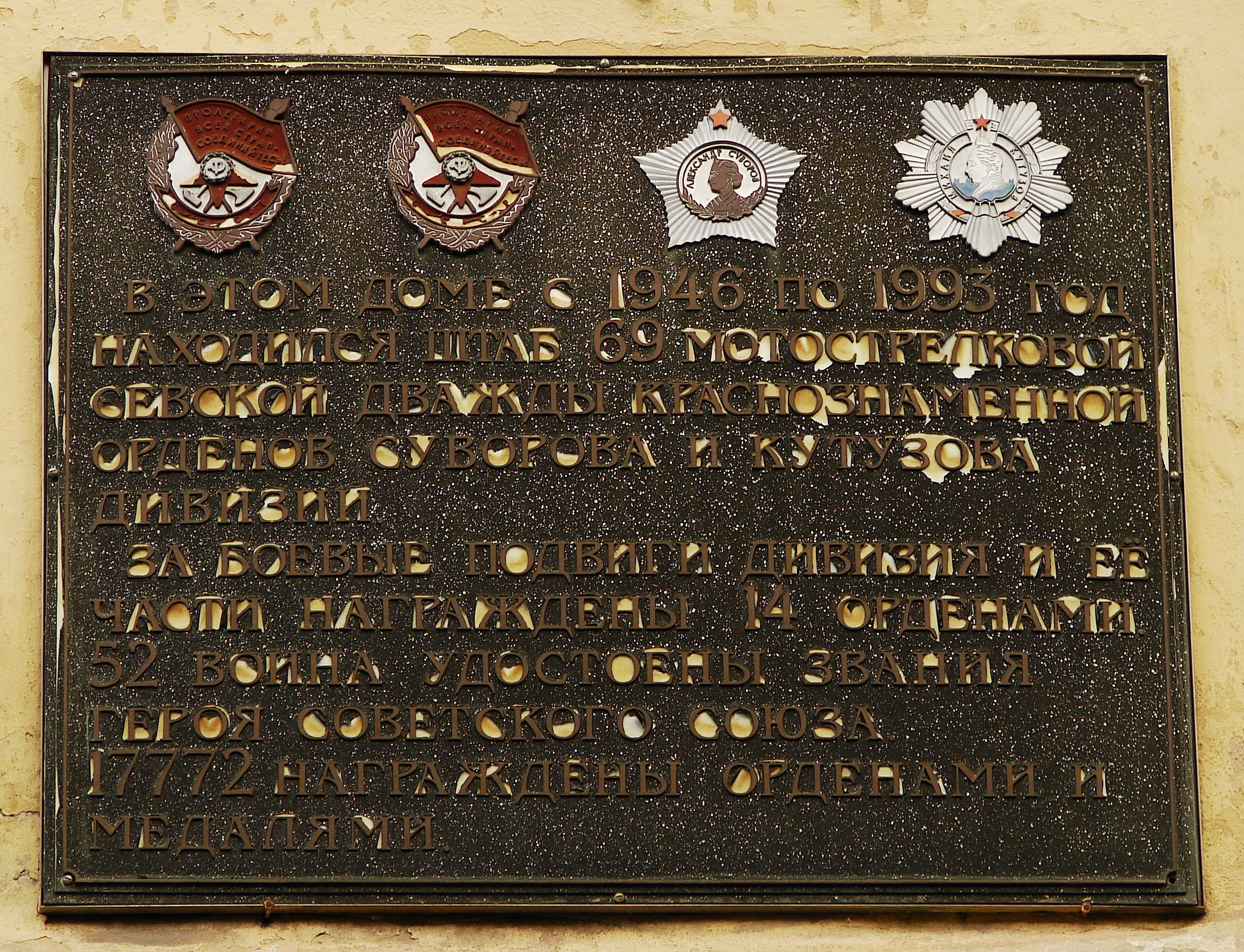 Rusiia, Vologda, Plaque on the house in which from 1946 to 1993 housed the headquarters of the 69th Infantry Division